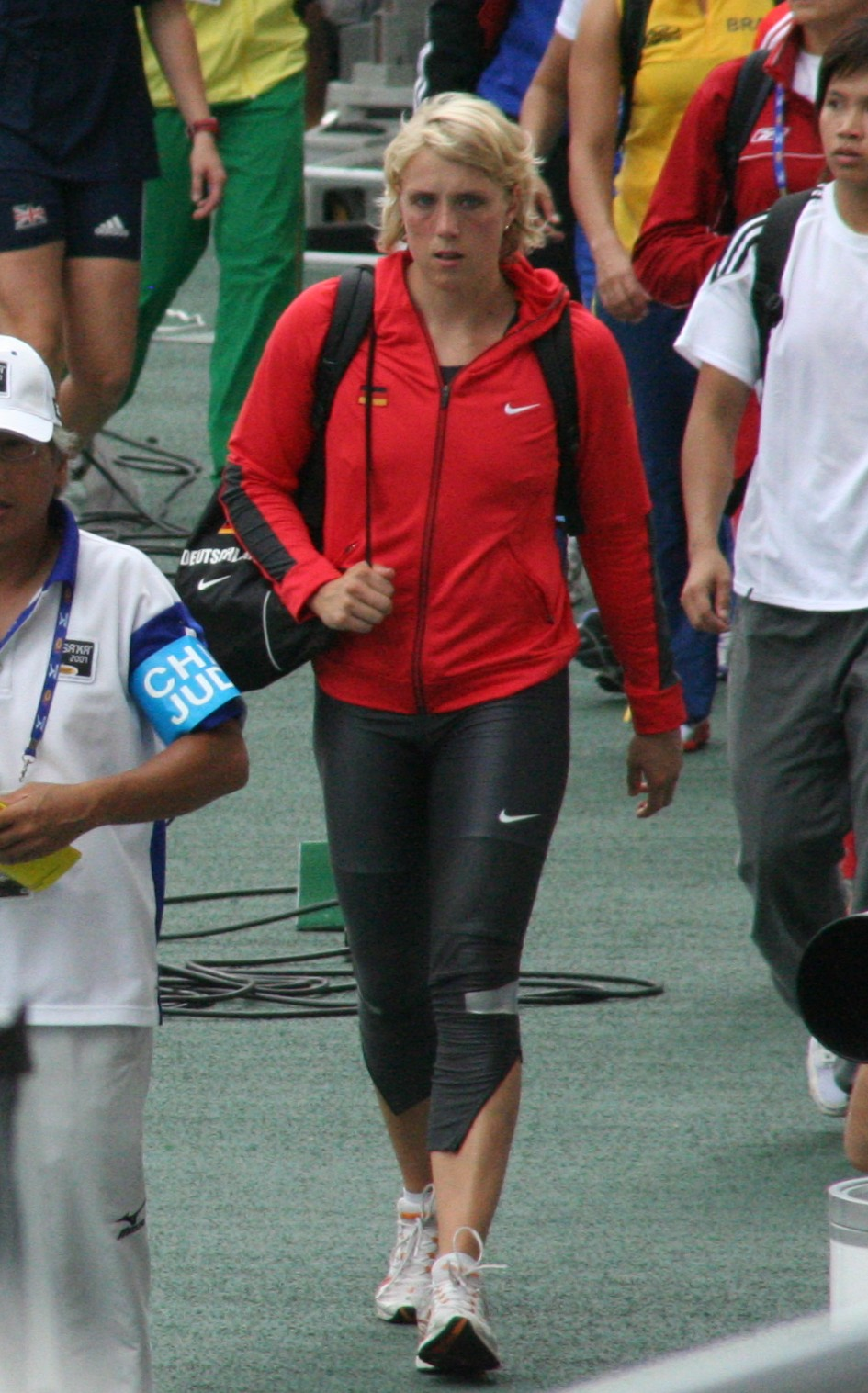 World Athletics Championships 2007 in Osaka - German Javelin Thrower Christina Obergfoell